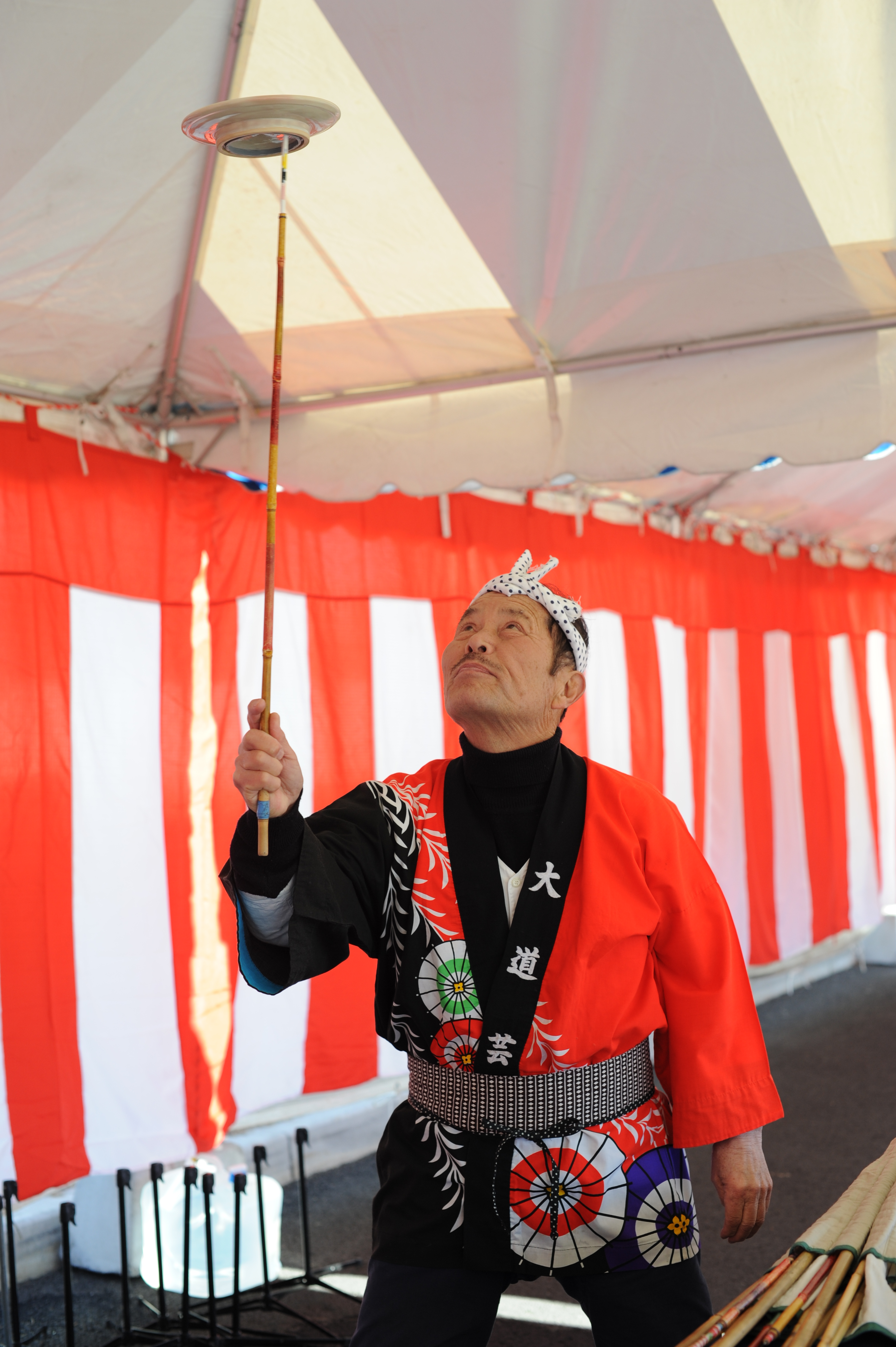 YOKOTA AIR BASE, Japan -- Sara-gei, a performer at the Japan Culture Day, takes a moment to show his plate spinning talents Jan. 18, 2013. Eight groups performed during the culture day festivities.